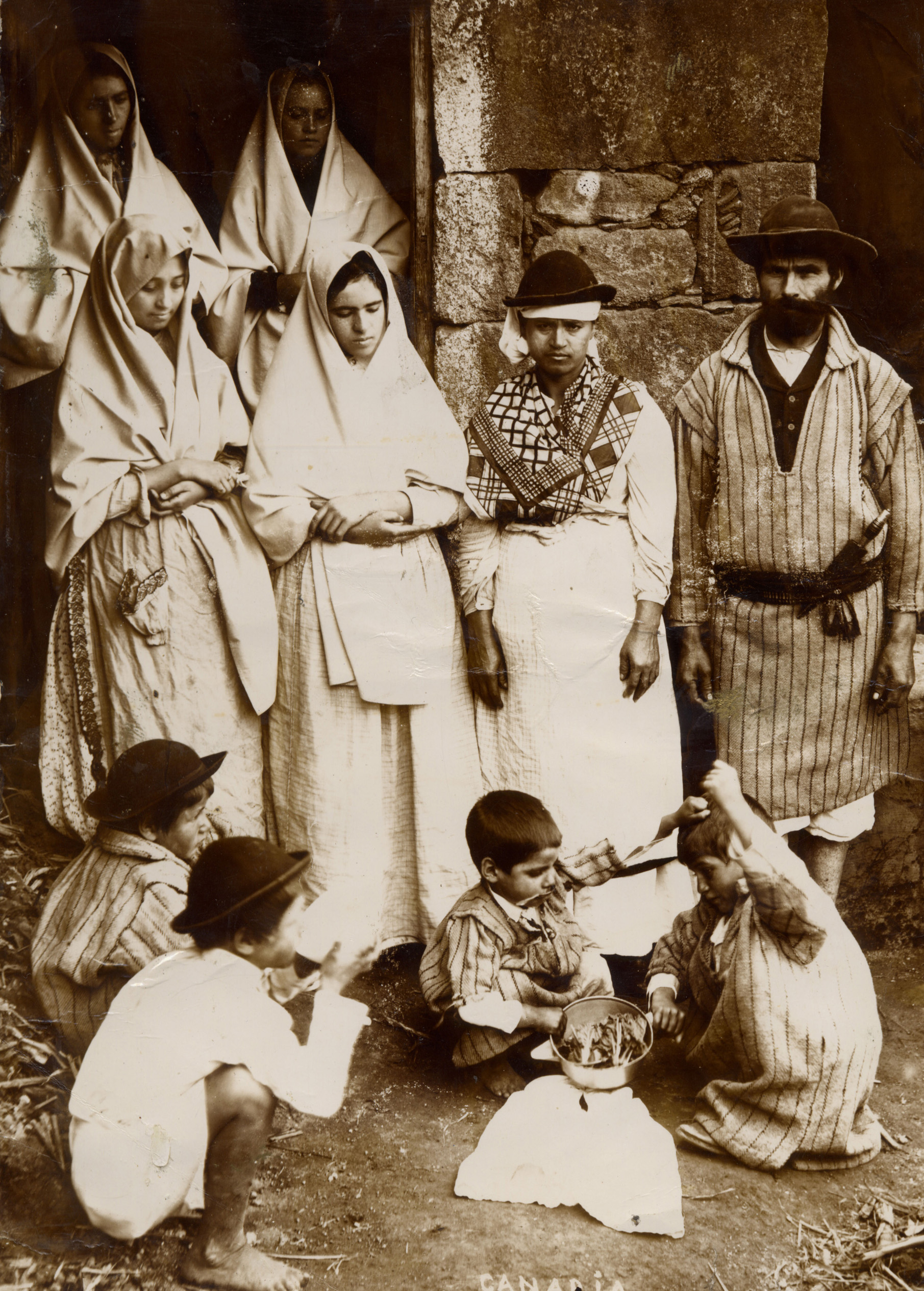 Photo of a farmer and family, the traditional Gran Canaria's knife the "cuchillo canario" (Canary knife) is at his cumberband.